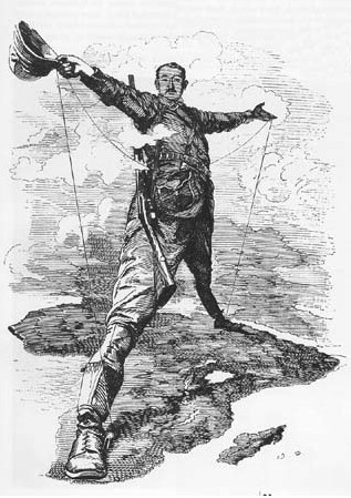 Cecil Rhodes and the British wishes of a British Africa from the Mediterranean to the Cape of Good Hope.